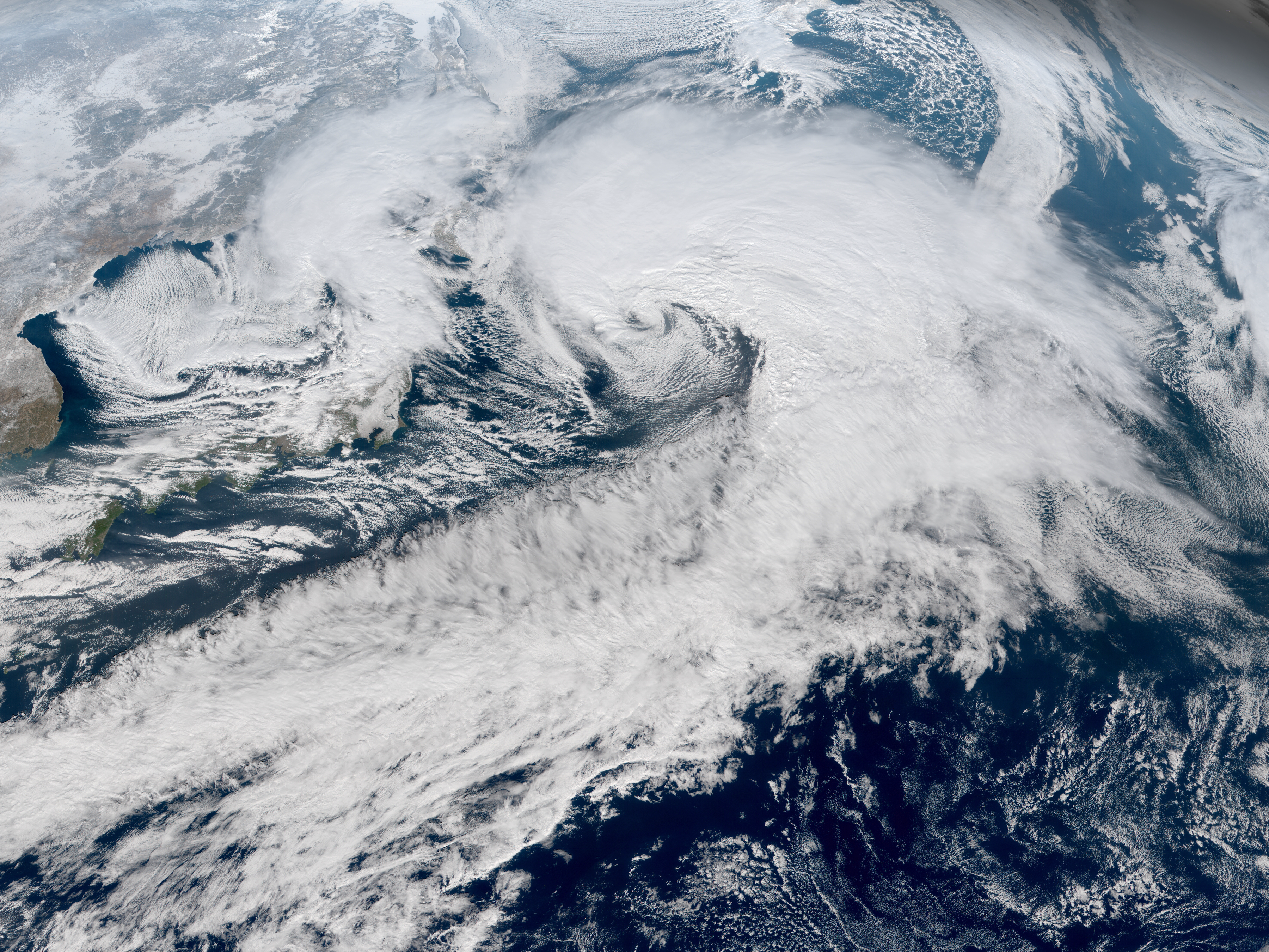 The Himawari-8 satellite captured two powerful extratropical cyclones undergoing explosive cyclogenesis and reaching their peak intensity near Japan on January 23, 2018. The typhoon-force low was the strongest Northwest Pacific non-tropical cyclone since January 2013 in terms of ten-minute maximum sustained winds, at 75 knots (140 km/h; 85 mph), just after bringing the heaviest snowfall to the Greater Tokyo Area since 2014. Despite its gigantic fronts, the core of this extratropical cyclone was unusually compact. Meanwhile, a smaller storm-force low was active over the northeast portion of the Sea of Japan, with ten-minute sustained winds at 60 knots (110 km/h; 70 mph). A possible polar low was also active to the southwest.